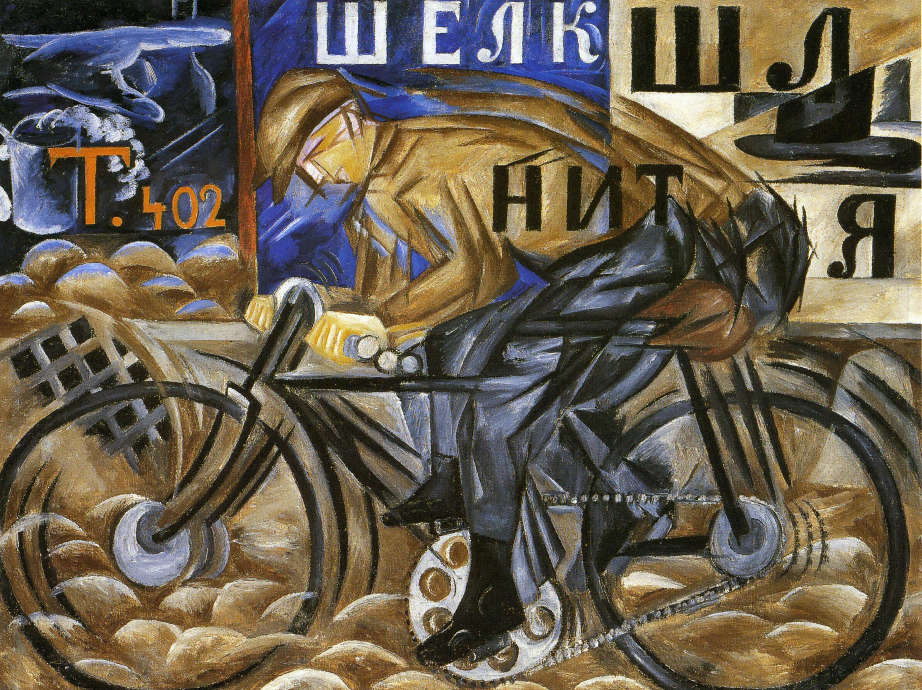 (slightly cropped)